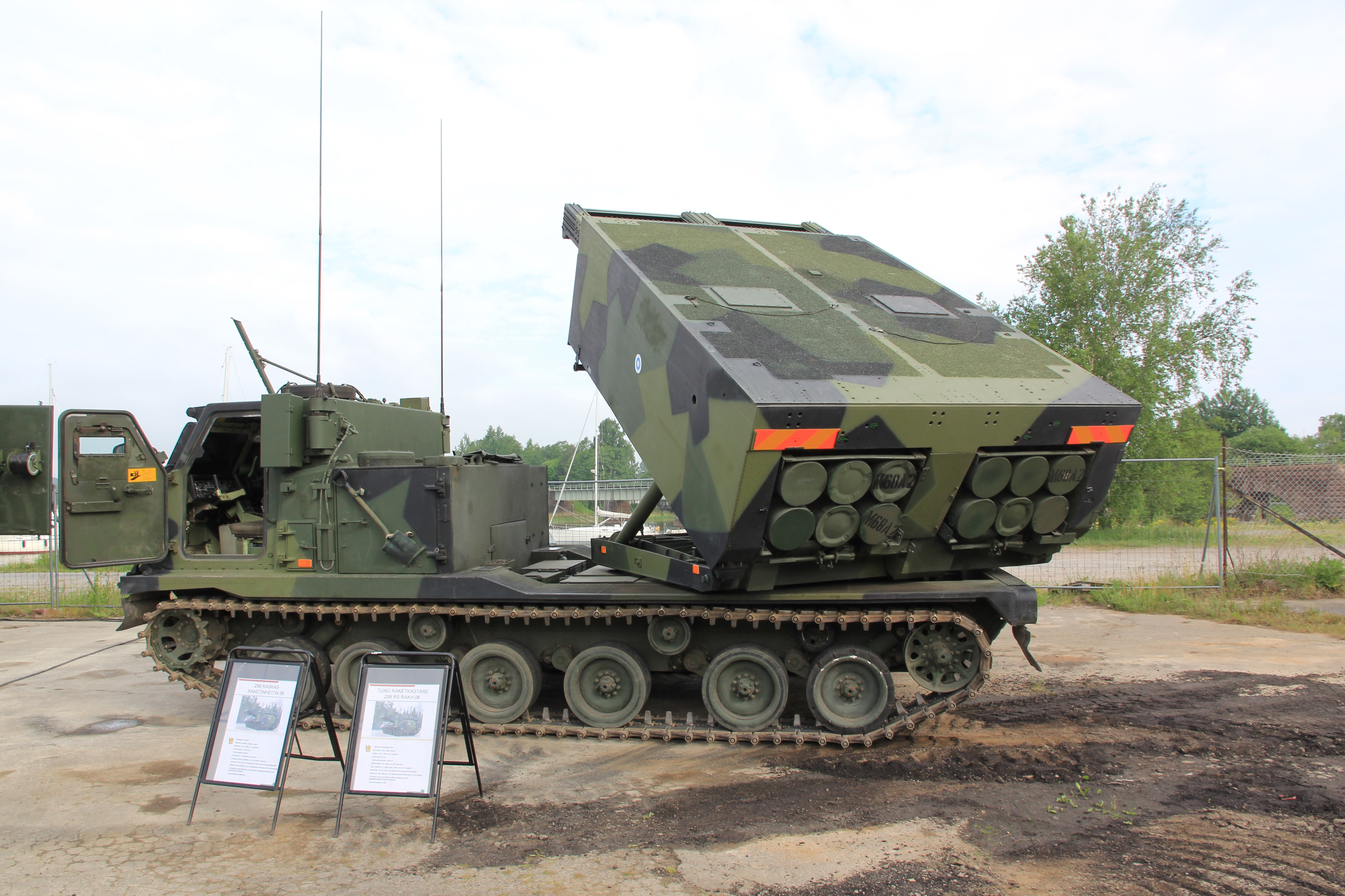 M270 MLRS (registry Ps 529-3) on display during Finnish Defence Forces 2013 Flag day in Ekenäs harbour.